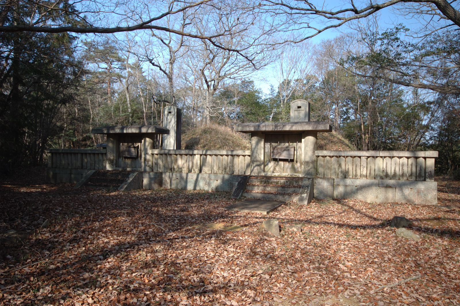 Ni-no-oyama, graves of Ikeda Toshitaka(left side) and his wife(right side)